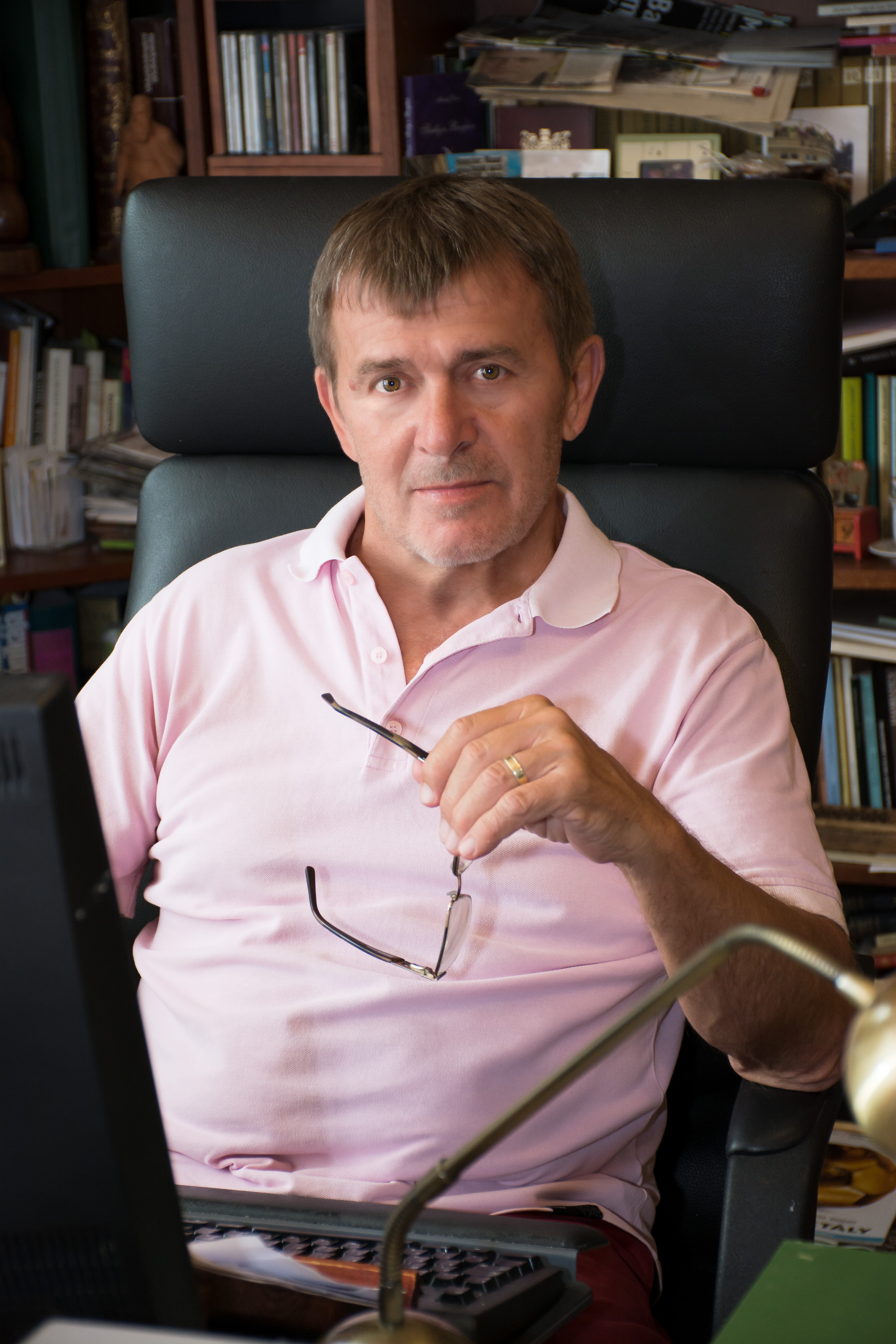 Hungarian humorist, performer, actor: Andras Nagy Bando